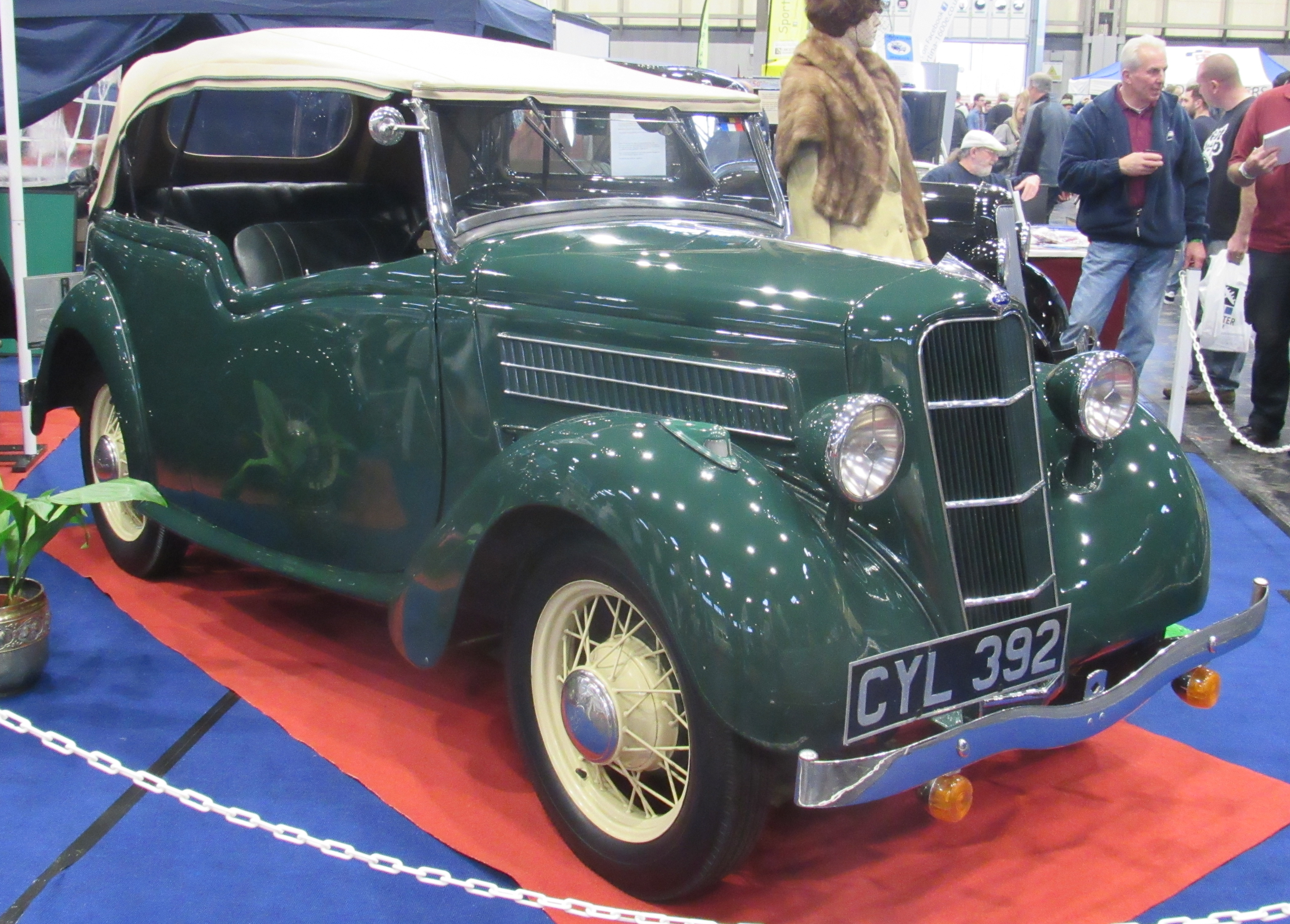 1936 Ford Model C Junior Tourer 1.2 Taken At the NEC Classic Motor Show 2017